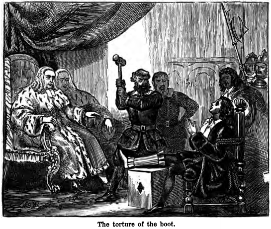 Picture from the book: The Scottish Patmos. A standing testimony to patriotic Christian devotion by James Moir Porteous Publication date 1881